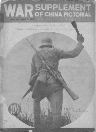 Front cover of War supplement of China pictorial.